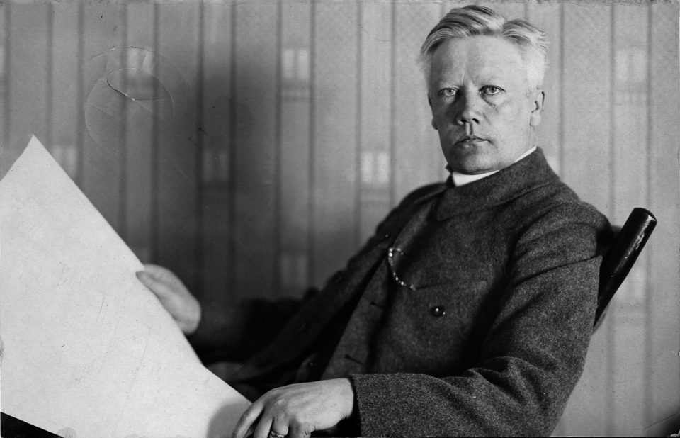 Photograph of the Swedish physician Herman Lundborg (1868–1943).